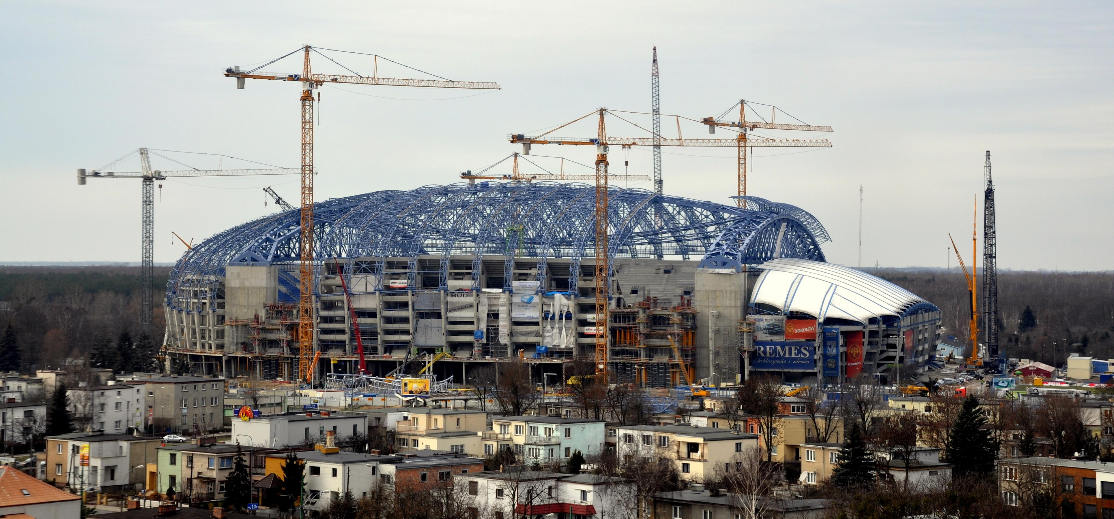 Stadion Miejski in Poznań